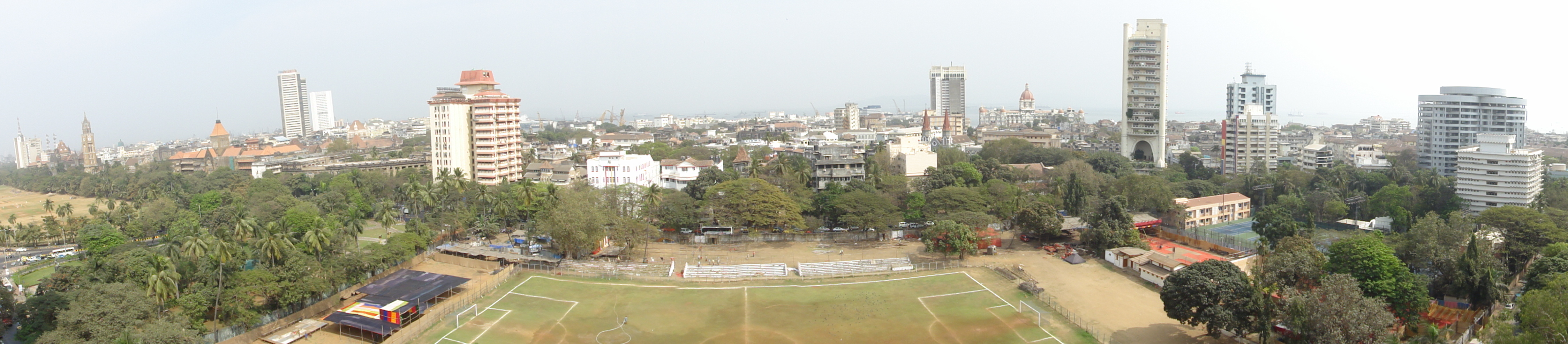 A 180 degree panorama of Colaba